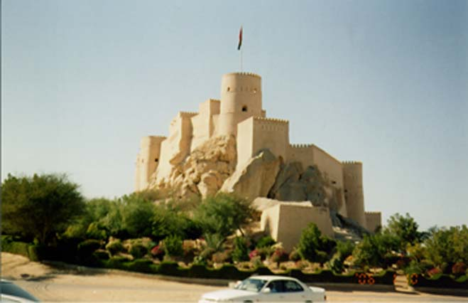 Nakhal fort - Batina region - Sultanate of Oman big butts